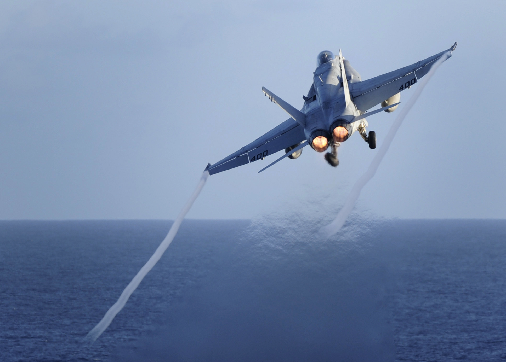 A U.S. Marine Corps F/A-18C Hornet climbs after being launched from the catapult of the aircraft carrier USS Nimitz (CVN 68) as the ship conducts flight operations in the Pacific Ocean on April 23, 2013. Nimitz and the embarked Carrier Air Wing 11 departed San Diego for a Western Pacific deployment. The Hornet is attached to Marine Fighter Attack Squadron 323.